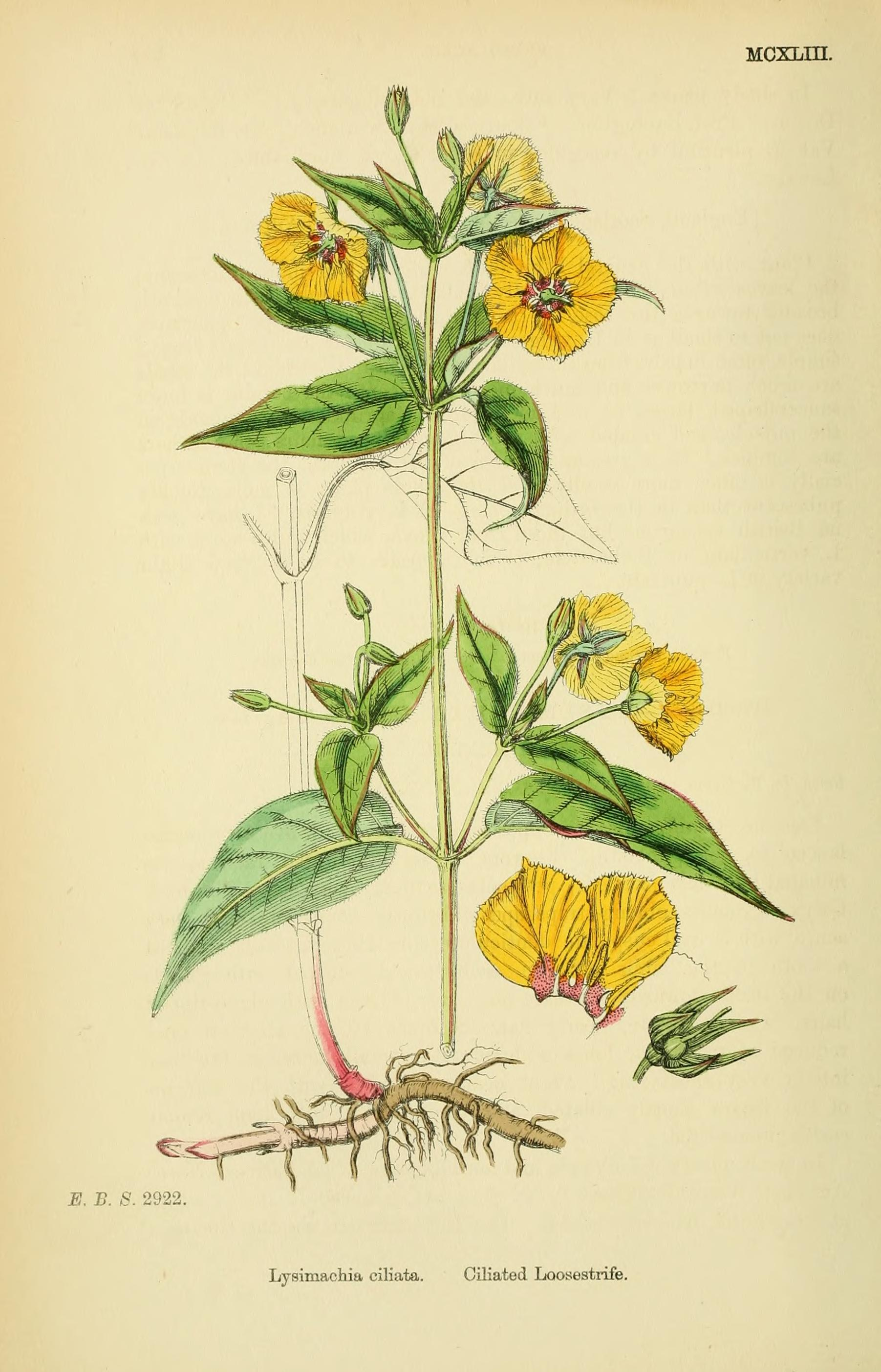 Title: English botany, or, Coloured figures of British plants Year: 1863 (1860s) Authors: Sowerby, James, 1757-1822 Boswell, John T. (John Thomas), 1822-1888 Lankester, Mrs. (Phebe), 1825-1900 Sowerby, James de Carle, 1787-1871 Salter, John William, 1820-1869 Sowerby, John E. (John Edward), 1825-1870 Subjects: Plants Plants Publisher: London : R. Hardwicke Text Appearing Before Image: Lysimachia punctata. Punctate Luosestrife. MCXLm. Text Appearing After Image: Lysimachia ciliata. Ciliated Loosestrife. PRIMUI.ACE^. 147 In shady places. Very rare, and not indigenous. Dulverton,Devon: Prof. Babington. Soutli-west of Scotland: Mr. Bentham.Var. 0 plentiful by roadsides in Glen Clova, Forflxrshire: Dr. G.Lawson. (England, Scotland.) Perennial. Summer, Autumn. Plant with the general habit of L. vulgaris, but more pubescent;the leaves often more distinctly stalked, commonly 4 in a whorl,broader towards the base, 1^ to 3 inches long, and the uppermostones not so small as in L. vulgaris; the peduncles are almost alwajSsimple, often in pairs from the axils of each leaf in the whorl; the sepalsare much narrower and much more pubescent; the corolla is moresaucershaped, larger (f to 1 inch across), sprinkled with glands onthe outside, and ciliated with short gland-tipped hairs; the anthersare combined for a greater portion of their length, the stem espe-cially is much more woolly, and the whole plant is more thicklypubescent than in the ordinary state of